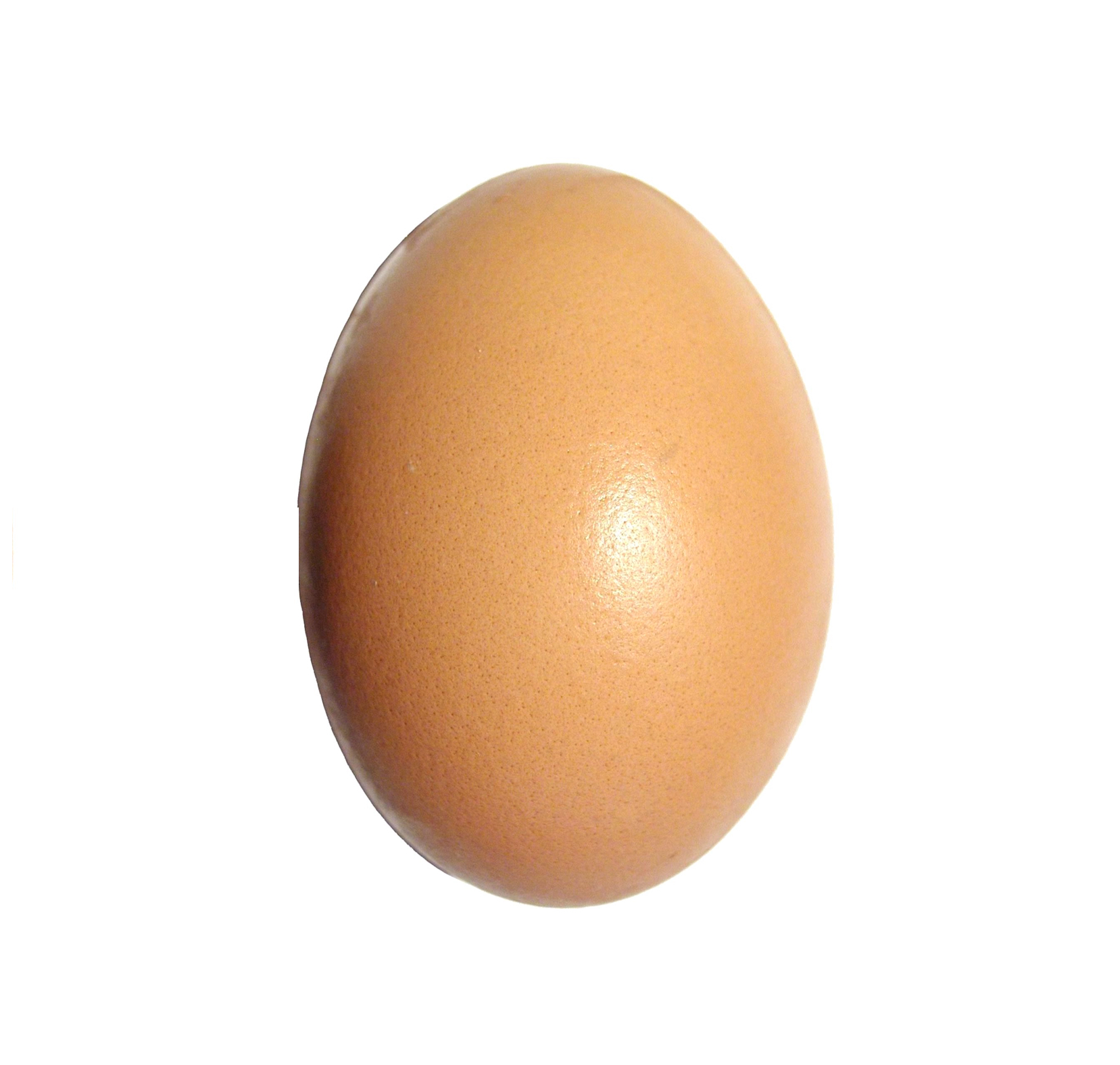 Image title: Egg on white background Image from Public domain images website